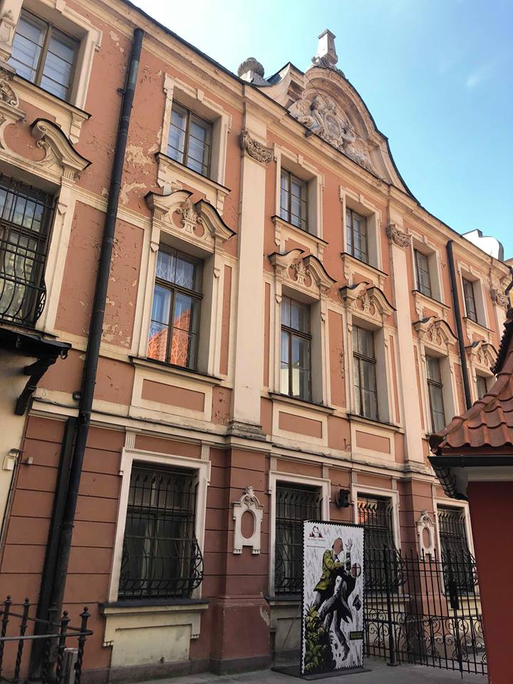 Jauniela iela 22, Riga, Latvia.